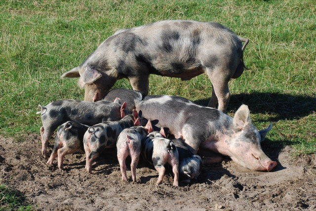 Teulu o Foch - A Family of Pigs Sow, boar and piglets.